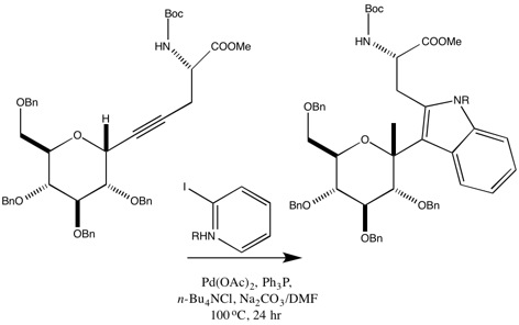 This is a reaction using Larock Indole Synthesis of alpha-C-Glycosylamino Acid to Iso-Tryptophan. An example of the reverse regioselectivity of Larock Indole Synthesis